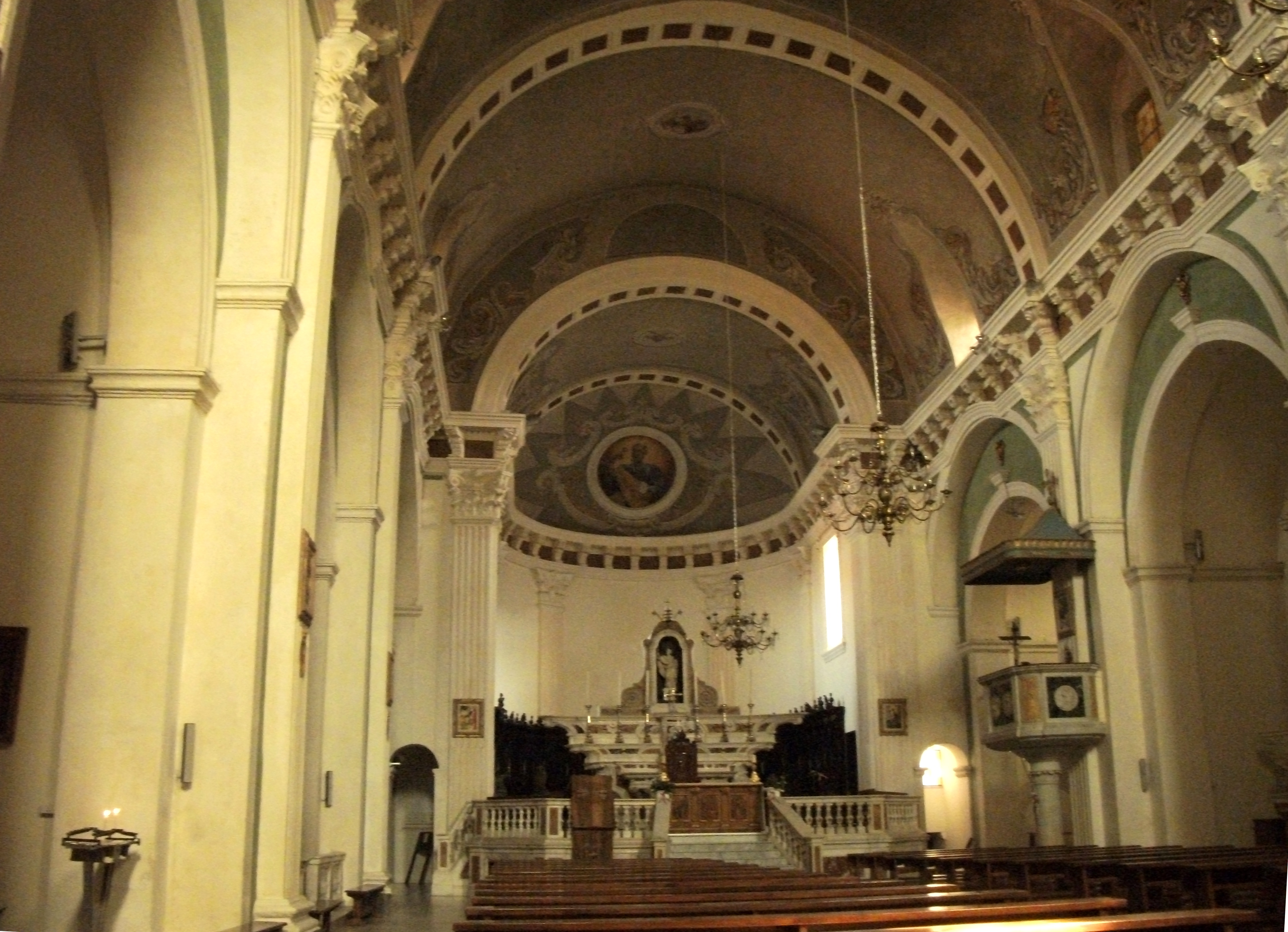 Tempio Pausania, San Pietro Cathedral, interior